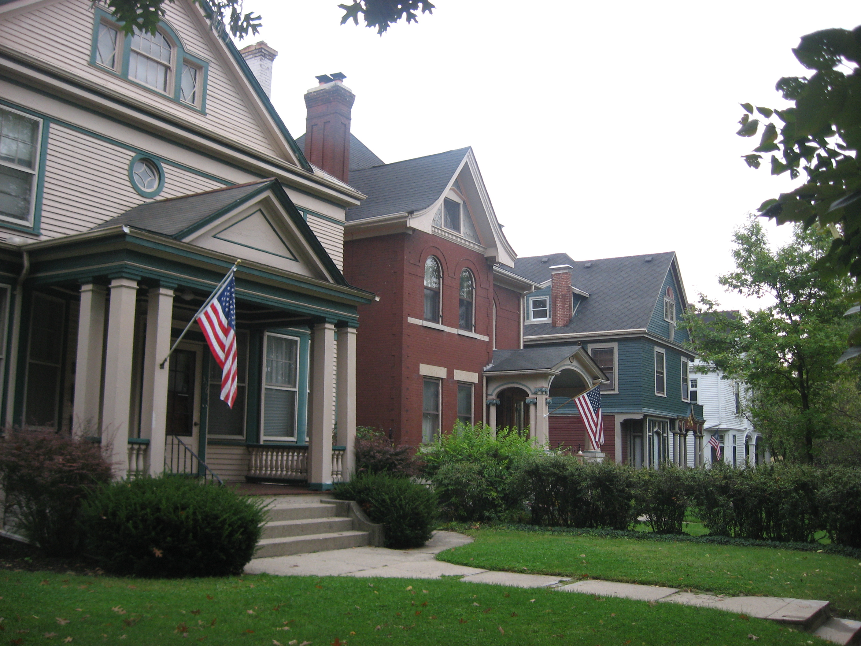 Houses on the eastern side of the 300 block of Central Avenue in Dayton, Ohio, United States. This block is part of the Central Avenue Historic District, a historic district that is listed on the National Register of Historic Places.